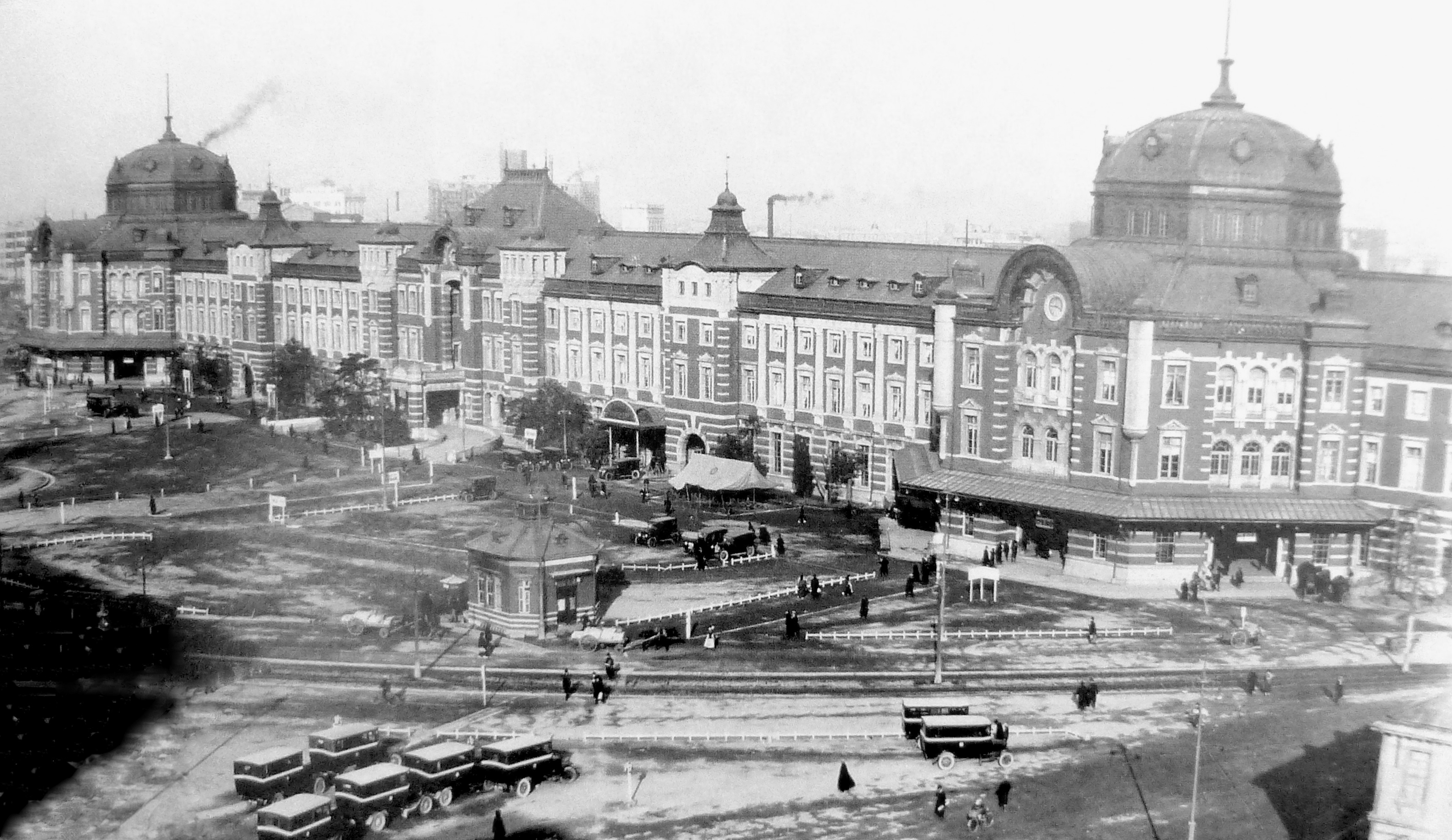 Old Tokyo Station (Marunouchi building) [Lower left was digitally altered to reduce reproduction errors.]